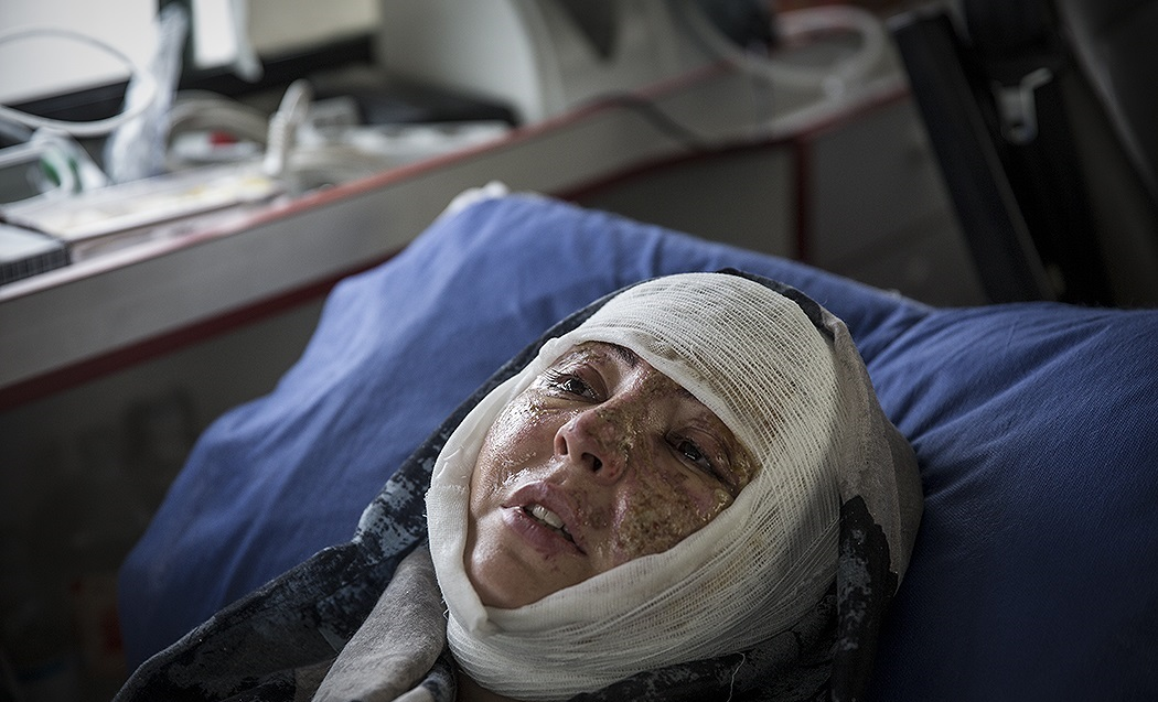 Maryam, an acid-attacked victim from Tabriz being treated in Tehran - 28 April 2018. 37-year-old Maryam is a victim of a family conflict and burned by her husband with acid; hands, her face and face burned heavily, but not her eyes. This is the second acid attack incident in Tabriz during April 2018. main album